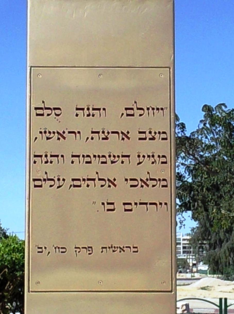 Monument to the sixteen civilians killed by suicide bombers in the city of Beer Sheva, Israel, August 31, 2004. Israeli officials blamed the attack on Palestine's democratically elected Hamas leadership. The quotation engraved is from Genesis Chapter 28 Verse 12 (in hebrew): "And he dreamed, and behold, there was a ladder set up on the earth, and the top of it reached to heaven. And behold, the angels of God were ascending and descending on it!"